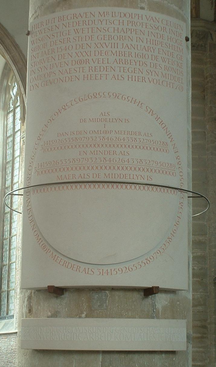 Monument for Ludolf van Ceulen (+ 1610) in the Leiden Pieterskerk ; it is a copy of his tombstone, which was already lost in 1800. The text gives the value of π in 35 decimals.